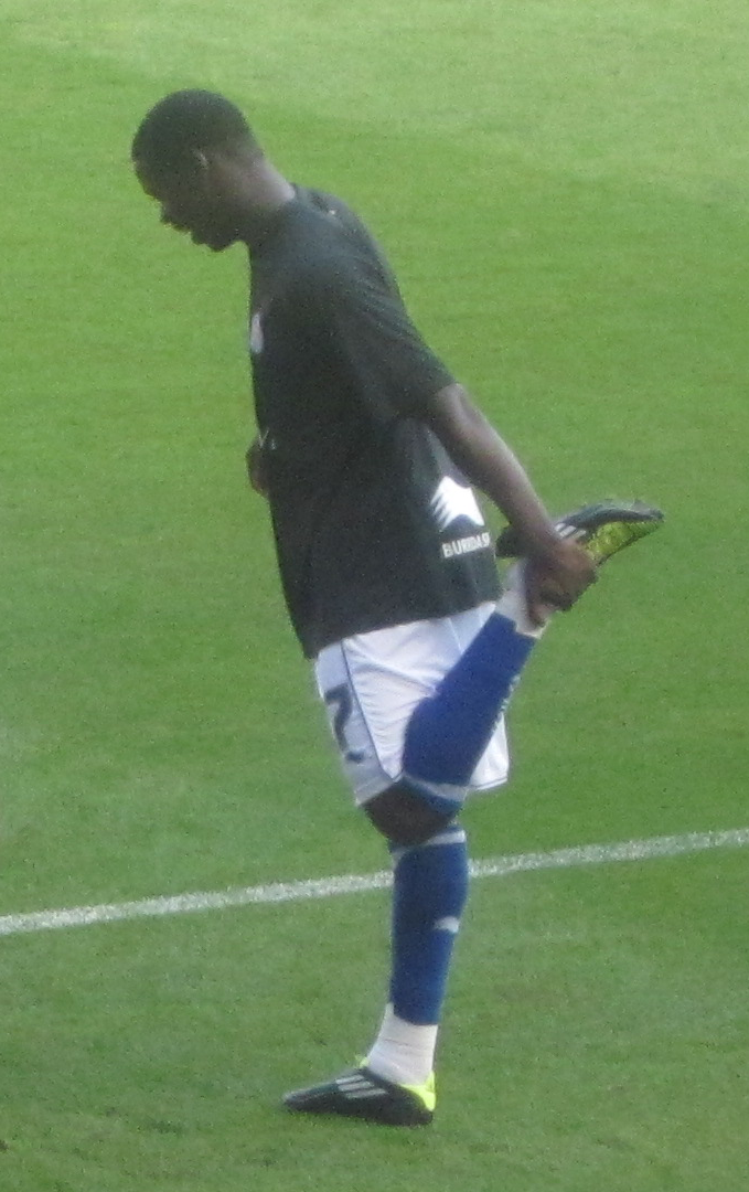 Jeffrey Schlupp warming up against Real Madrid in a friendly.